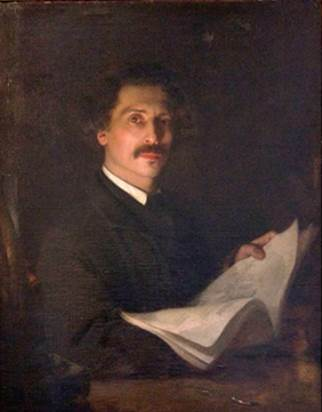 Self-portrait (2)